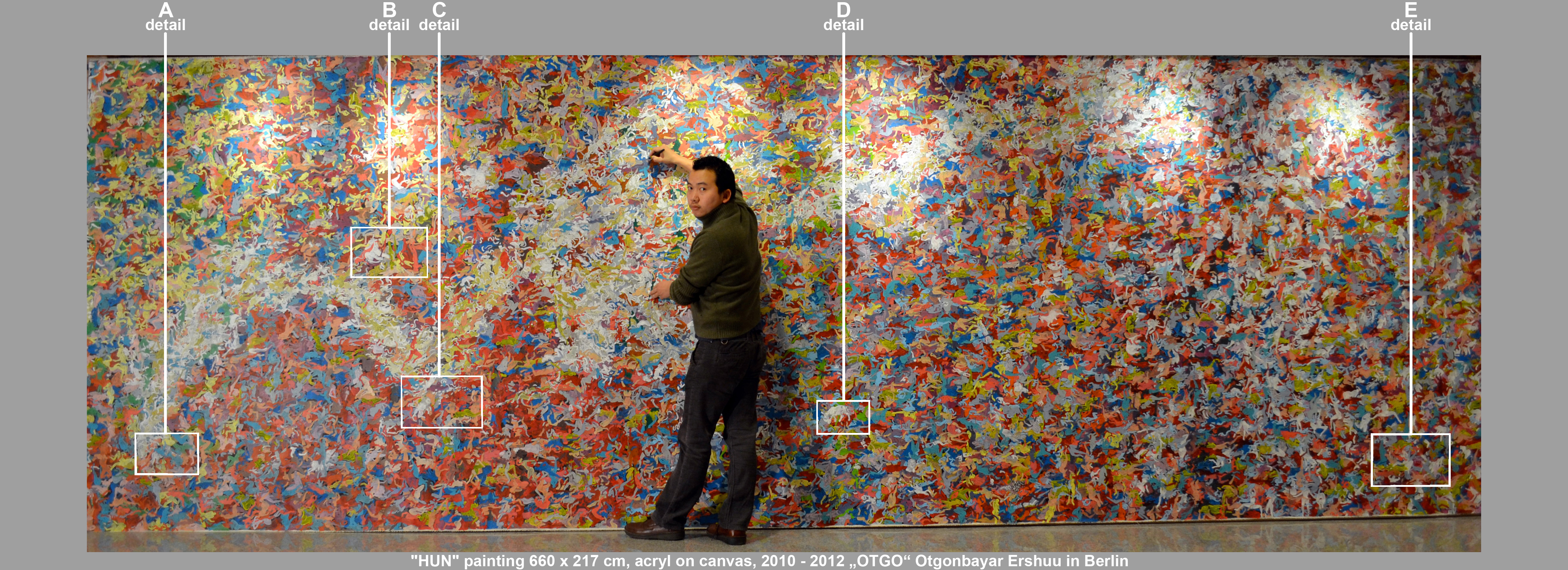 HUN (people) painting 660 x 217 cm, acryl on canvas, 2010 - 2012 OTGO in Berlin (HUN painting has around 11196 people and animals)